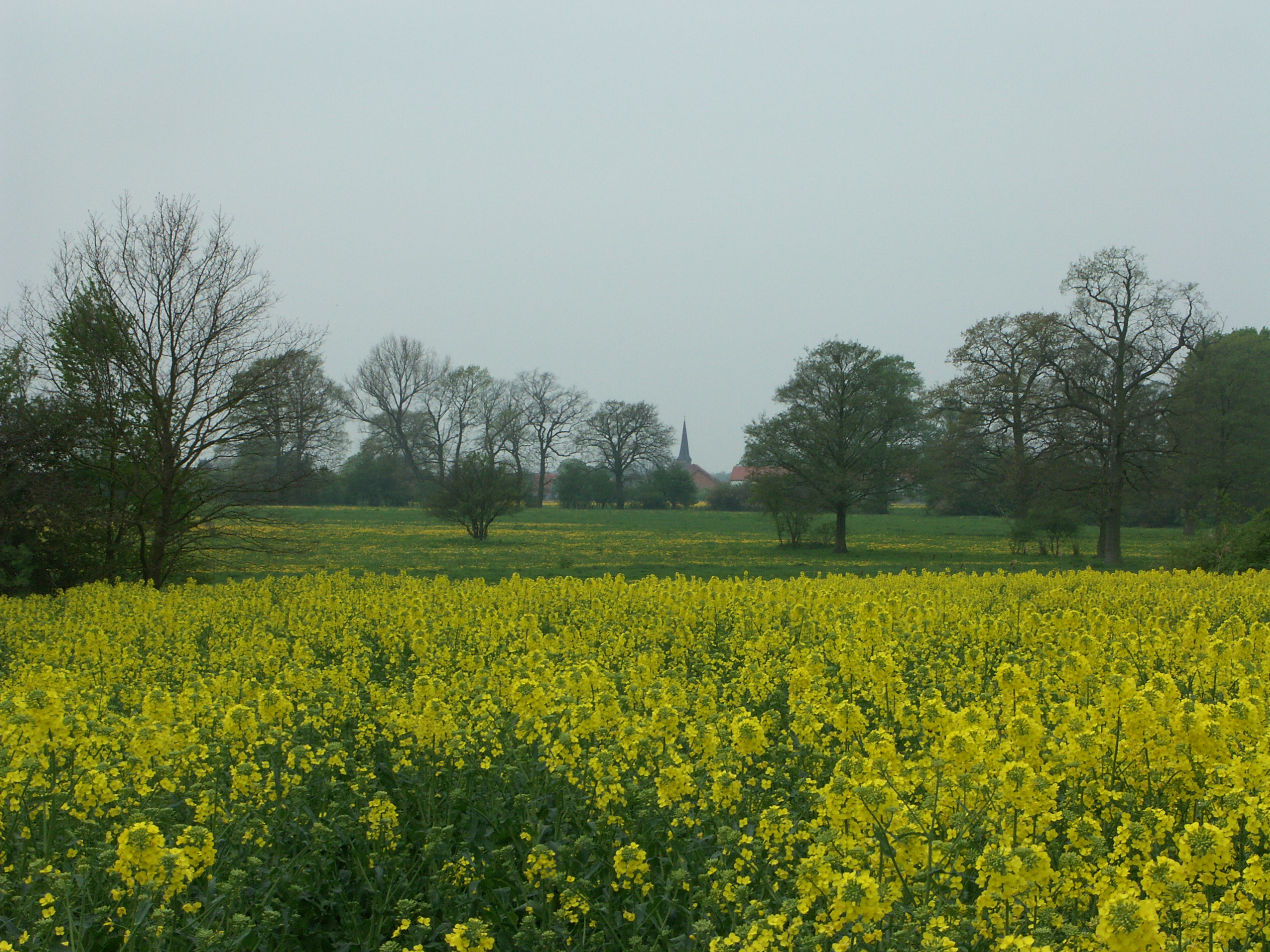 Madows near Nebelin (Germany)